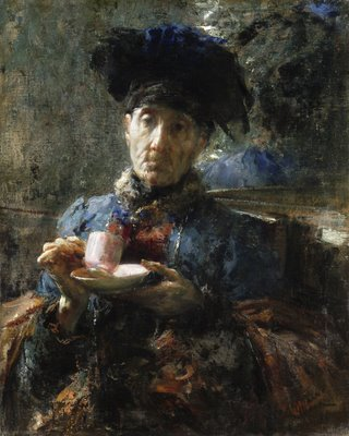 Old Woman Drinking Tea